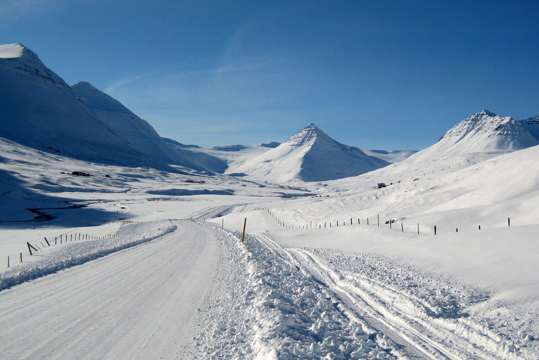 Svarfaðardalur fram, N-Iceland